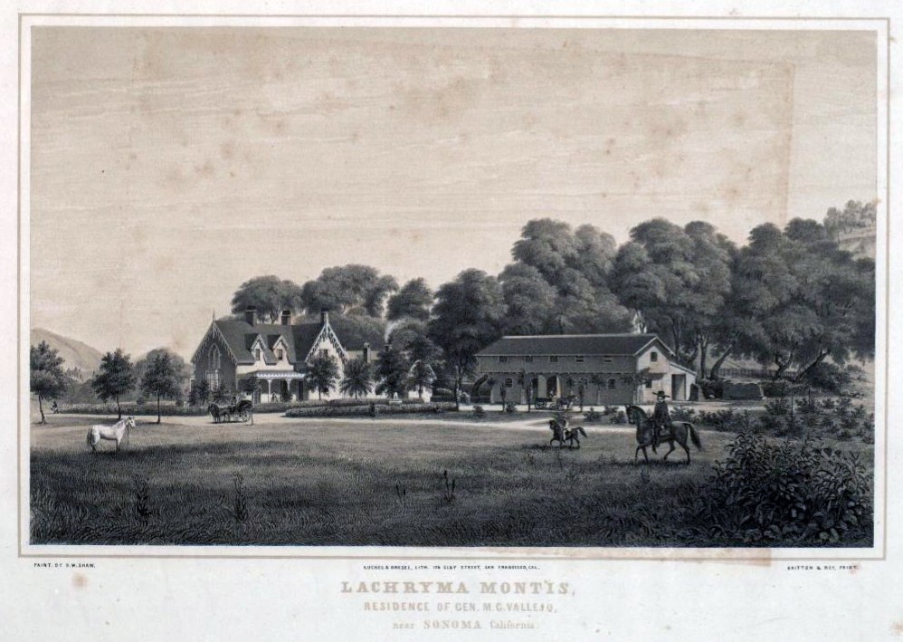 Lachryma Montis, residence of Gen[eral] M. G. Vallejo, near Sonoma, California Stephen William Shaw (December 15, 1817-February 12, 1900) artist Kuchel & Dresel (active ca. 1853-ca. 1865) lithographer Britton & Rey (active 1851-1902), printer